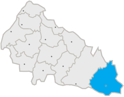 Ukraine, Oblast Transcarpathia, Rajon Rakhiv highlighted